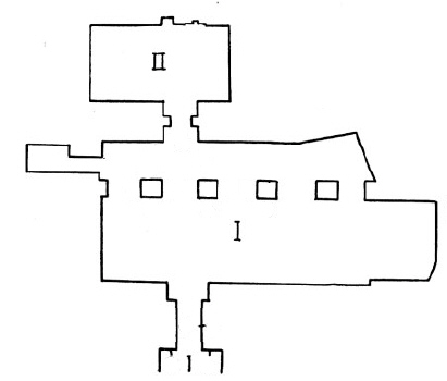 Plan of the Tomb of Hemetre at Giza